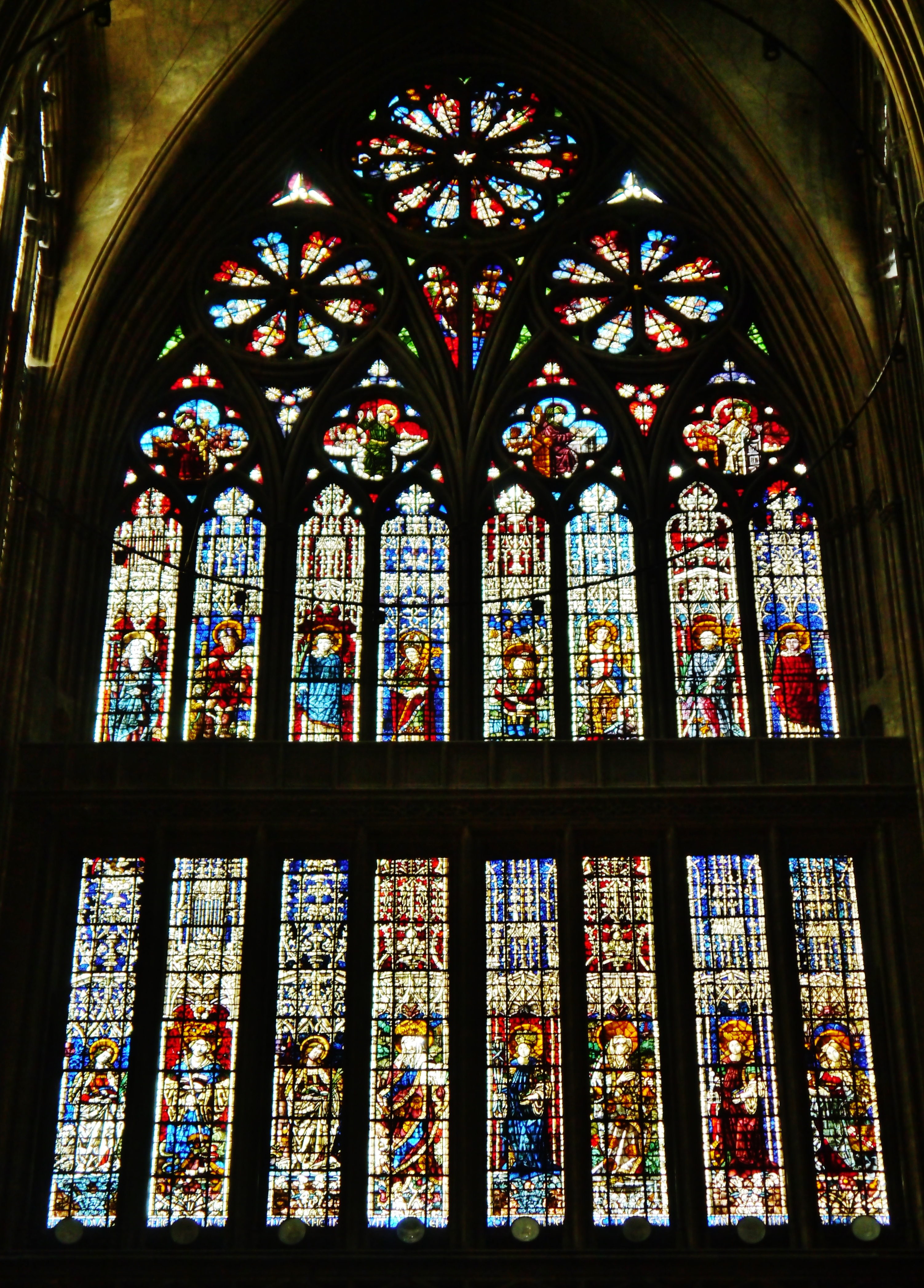 Stained Glass Window of the Cathedral St. Stephen, Metz, Département of Moselle, Region of Lorraine (now Grand Est), France